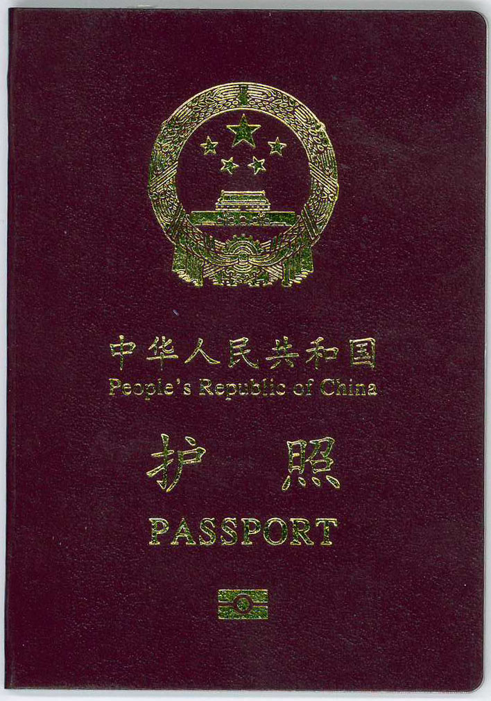 People's Republic of China Passport (Biometric passport) (Started to use on May,15,2012)